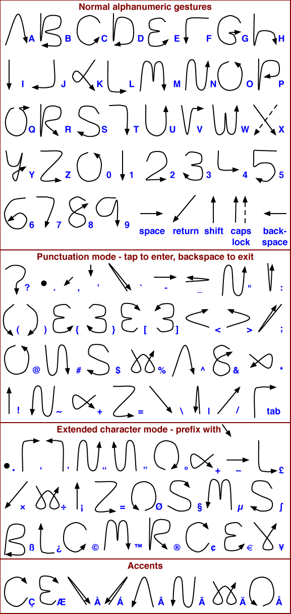 Gestures used by original Palm OS handheld computers. Drawn by User:IMeowbot